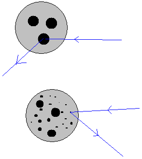 a photon scattering off a parton in a hadron at low and high energies